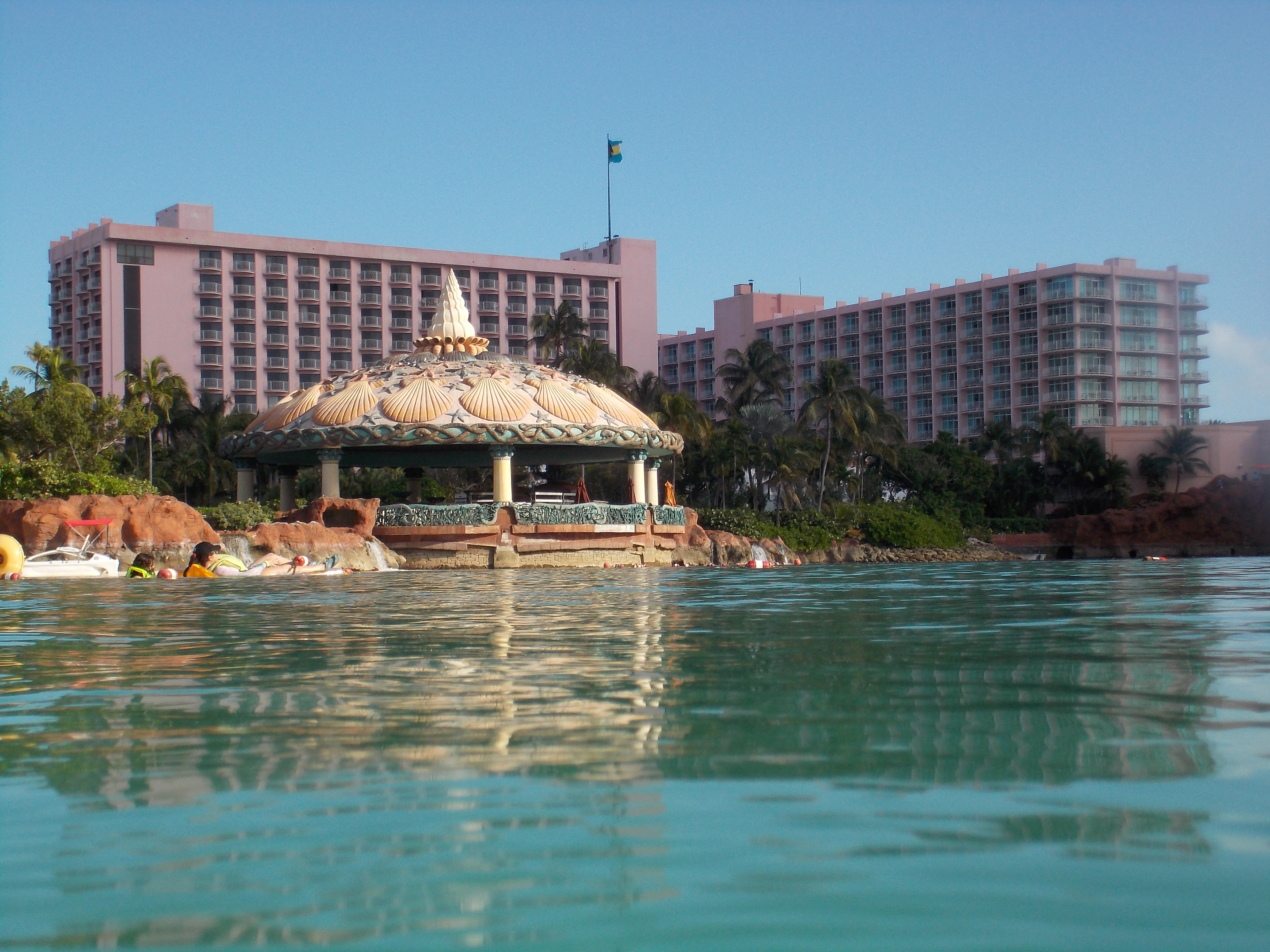 Coral Towers Atlantis Paradise Island photo D Ramey Logan